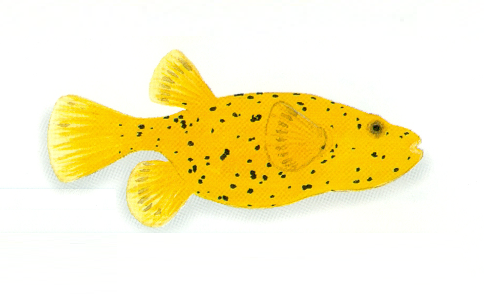 Arothron_nigropunctatus